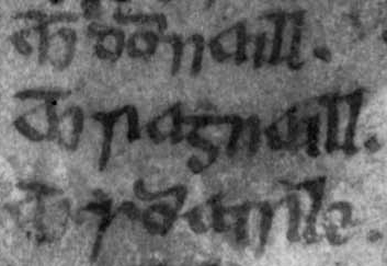 "son of Domnall", "son of Ragnall", "son of Somairle". The names refer to the following men: Domnall, Ragnall, and Somairle.